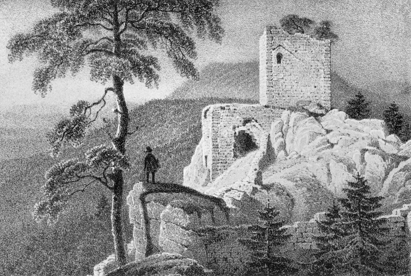 Lithograph of the Château de Bilstein nearby Riquewihr, Alsace